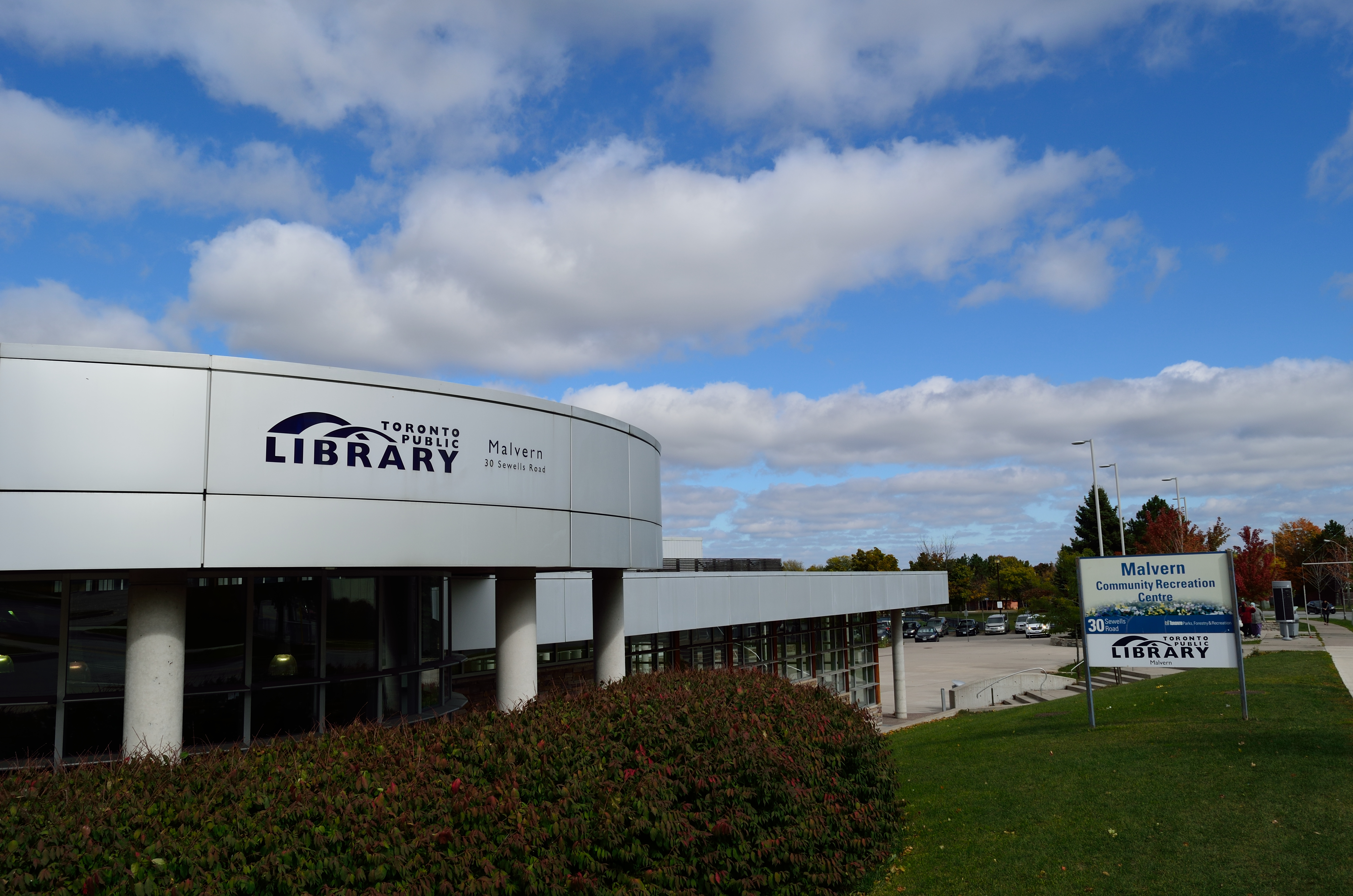 Malvern Toronto Public Library